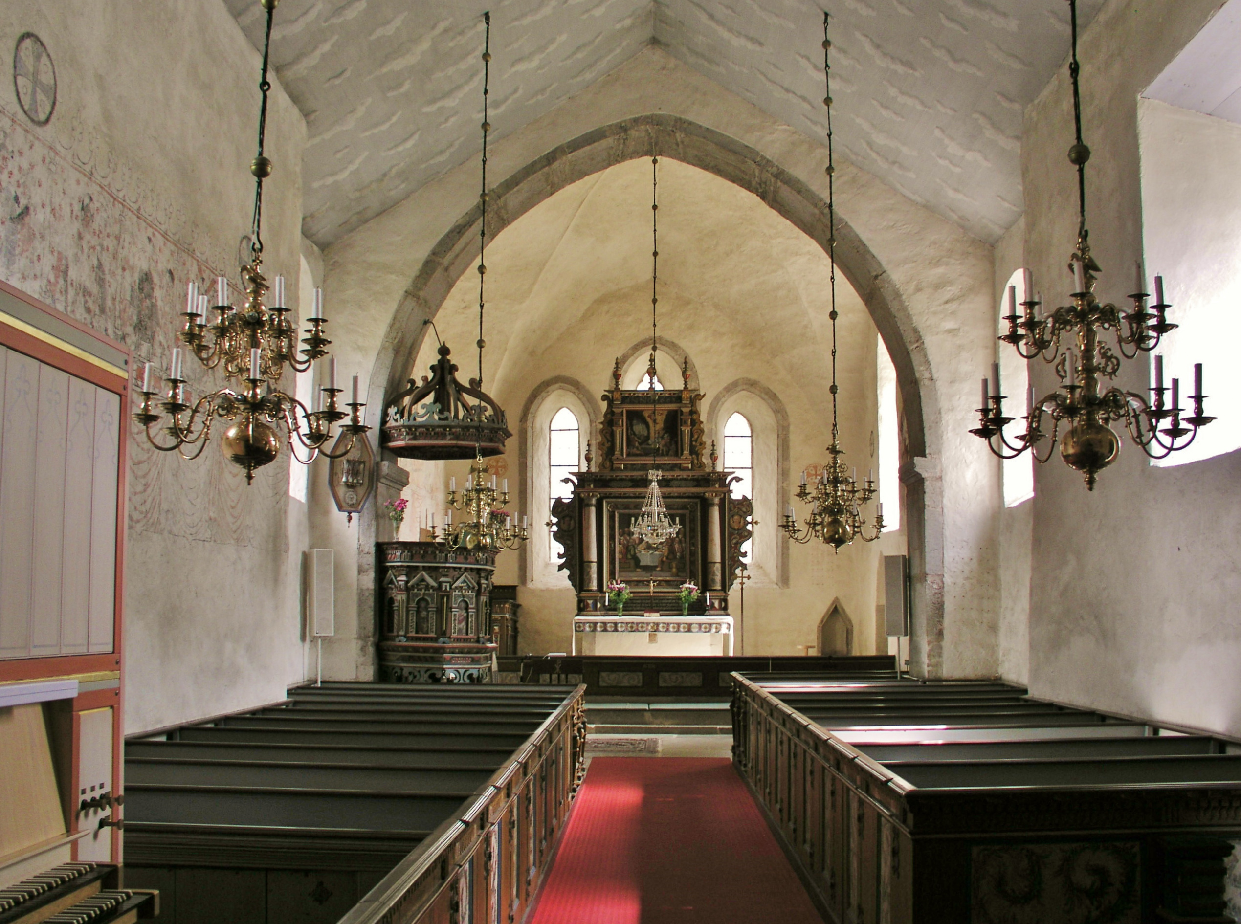 Lummelunda kyrka, Diocese of Visby, Gotland, Sweden. Nave.